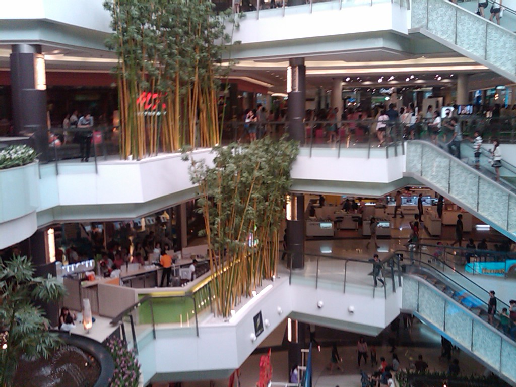 Future Park is a mall in Rangsit , Thailand